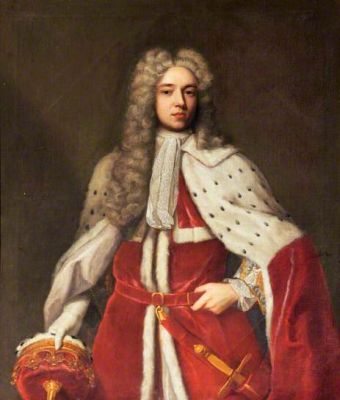 Portrait of Henry Somerset, 2nd Duke of Beaufort